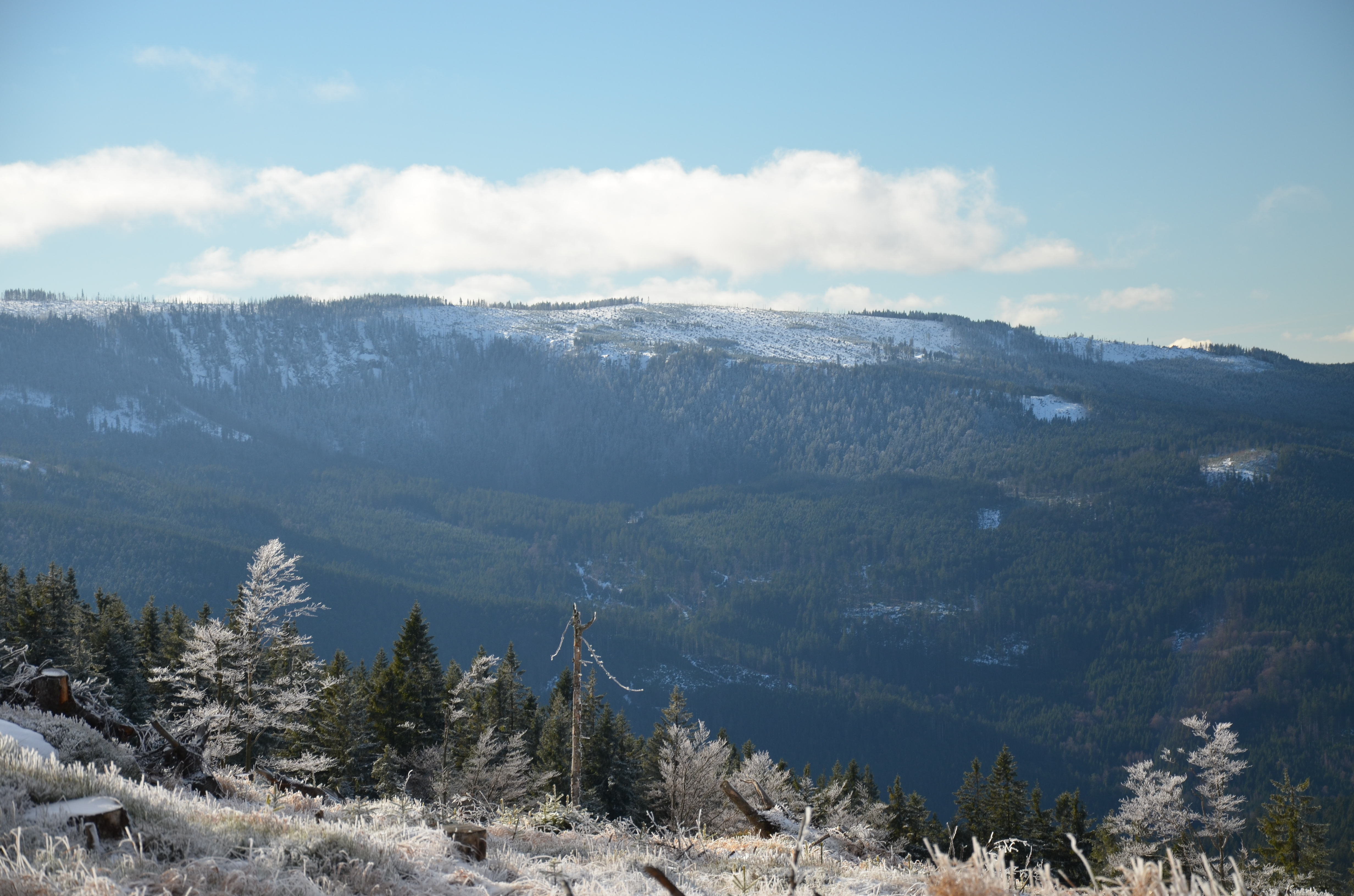 Zwercheck/Svaroh mountain, Bavaria/Czechia